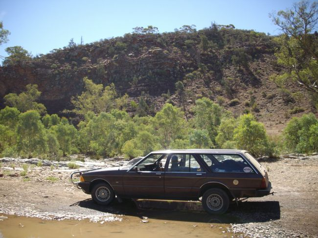 1982 Ford XD Falcon GL station wagon, photographed in the Flinder's Ranges.